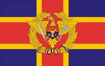 Moldovan Army Flag